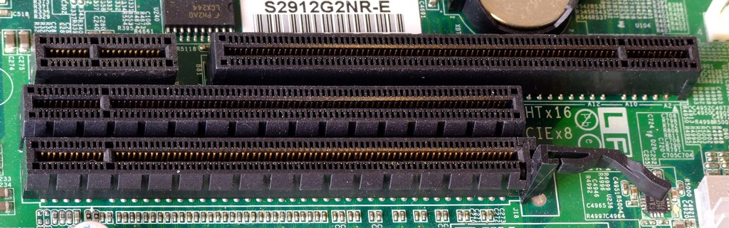 From top to bottom: HTX-pro connector (Hyper Transport eXpansion) , PCI-Express slot for riser card (mechanical x16, x8 signal), PCI-Express slot (mechanical x16, x16 signal)